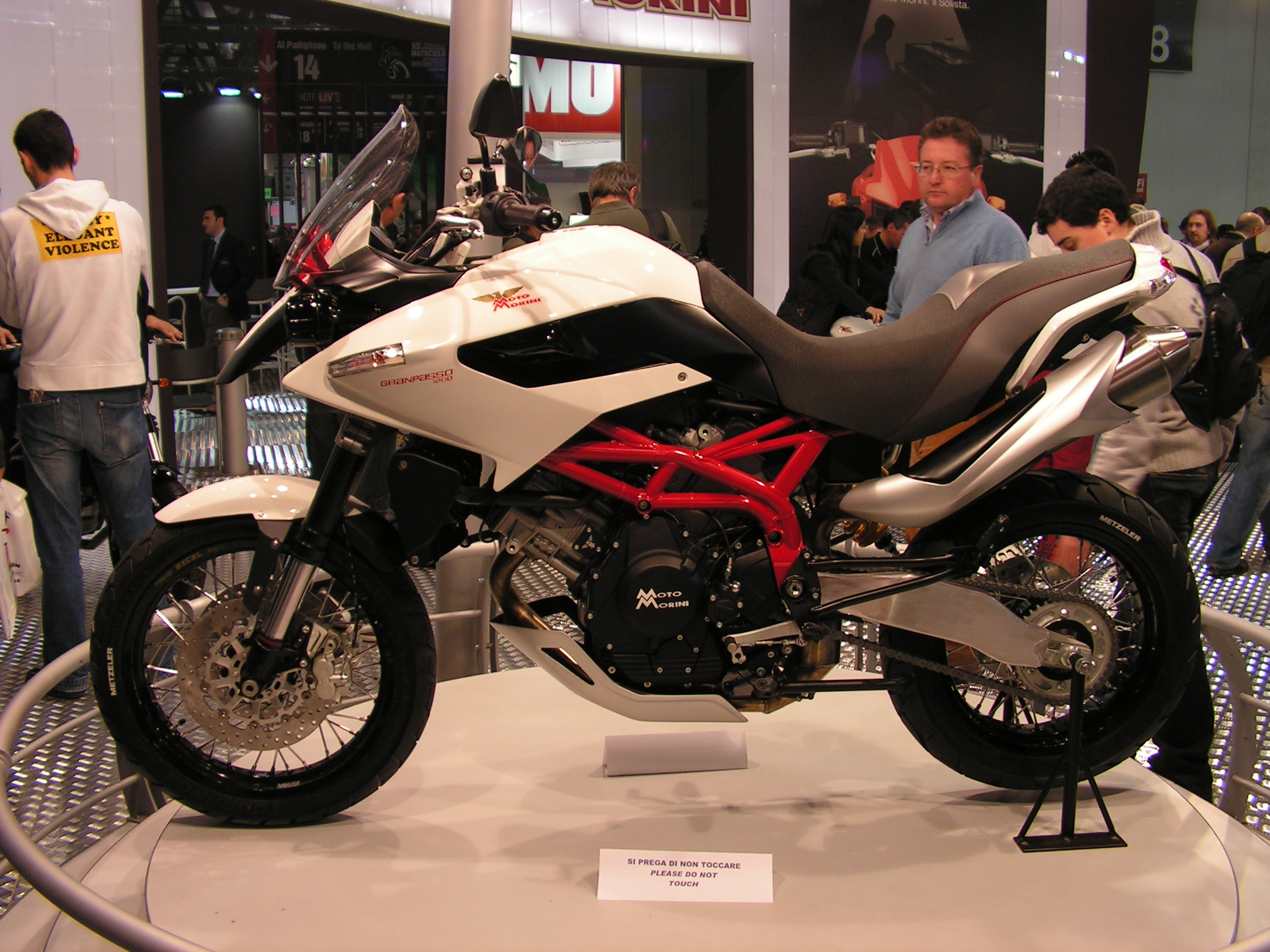 Moto Morini Granpasso 1200 - EICMA 2007, Milan (Italy)